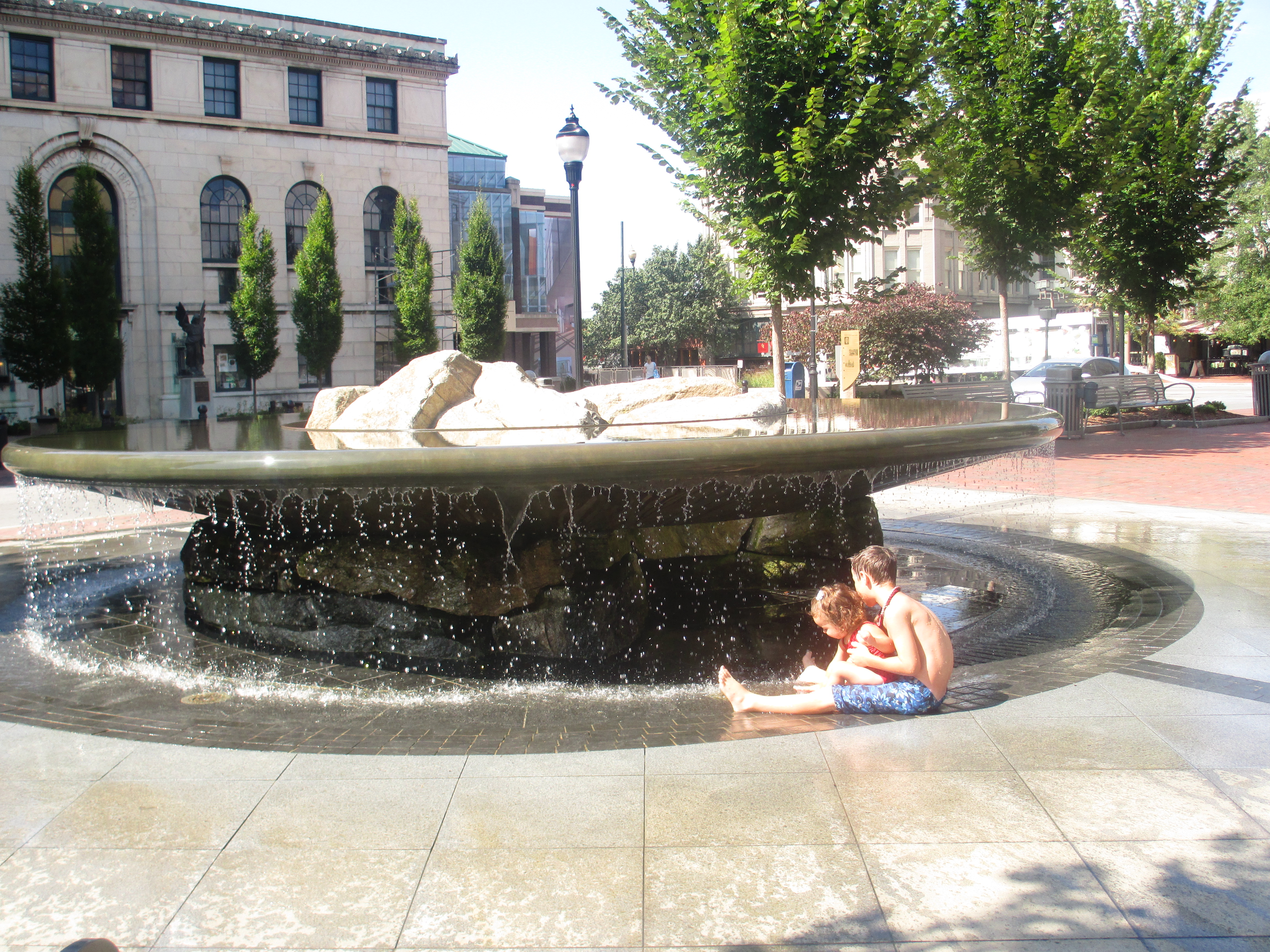 I took photo of fountain in downtown Asheville, NC, with Canon camera.